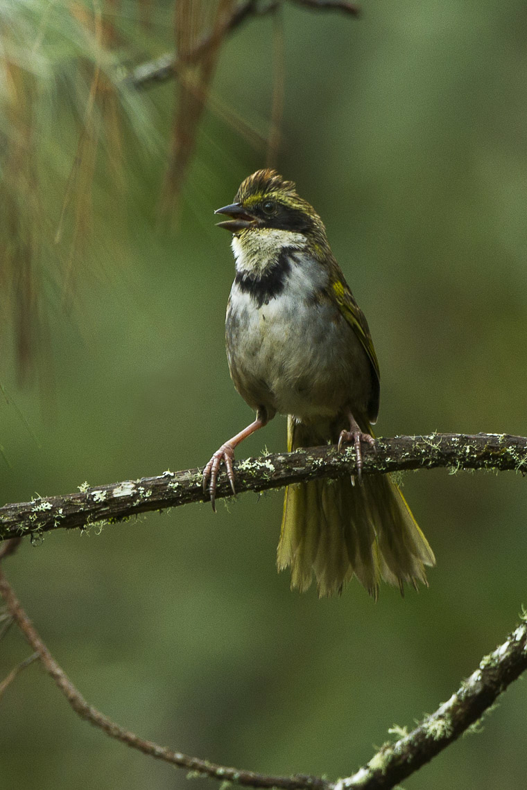 Collared Towhee, Pipilo ocai, in Oaxaca, Mexico